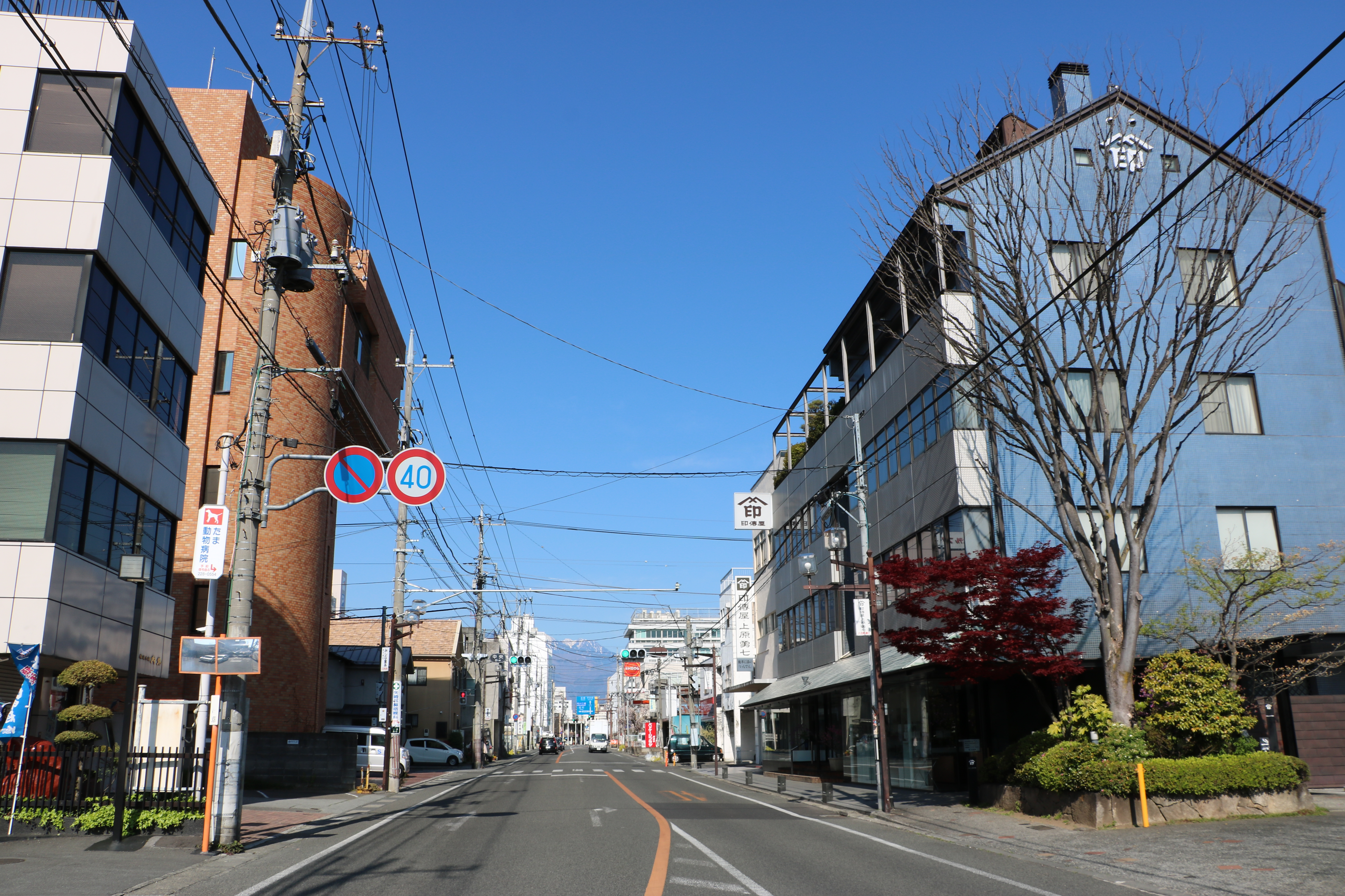 Chuo district intersection. Kofu city.